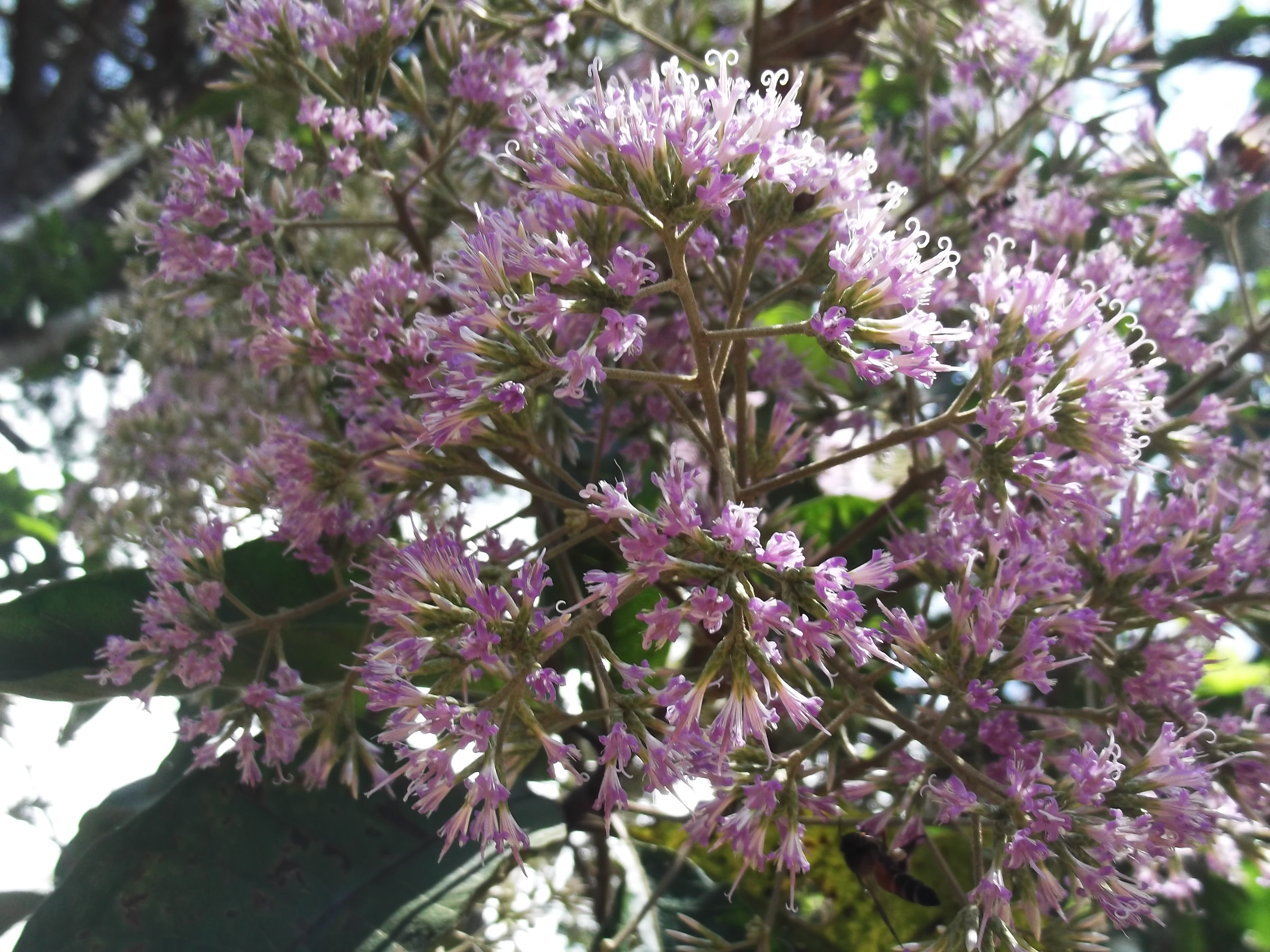 Marasuthi-very rare tree,it is available only at yercaud and 4 trees lived in the world.